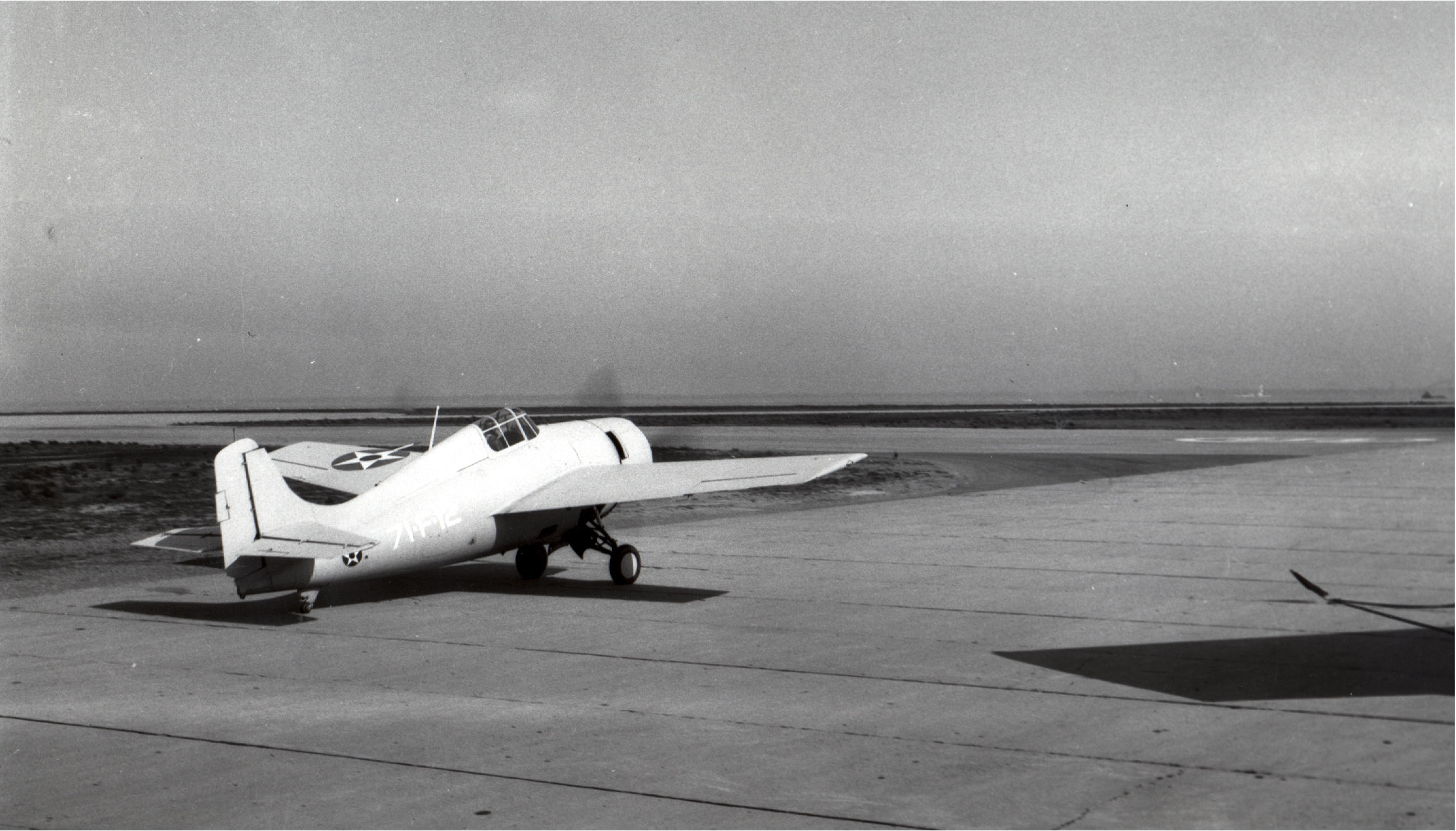 A U.S. Navy Grumman F4F-3 Wildcat assigned to fighter squadron VF-71 on board the aircraft carrier USS Wasp (CV-7) on the runway at Naval Air Station Norfolk, Virginia (USA), in 1941. Note the overall light gray paint scheme with white lettering and numbering in effect briefly during 1941. Established as bombing squadron VB-7 on 7 July 1939, the squadron was redesignated a fighter squadron on 1 July 1940. The squadron flew from Wasp in support of the invasion of Guadalcanal in August 1942. Following that carrier's sinking, pilots were landbased at Espiritu Santo, and some supplemented the defense of Guadalcanal as part of the Cactus Air Force. VF-71 scored seven kills during World War II, and was disestablished on 7 January 1943.